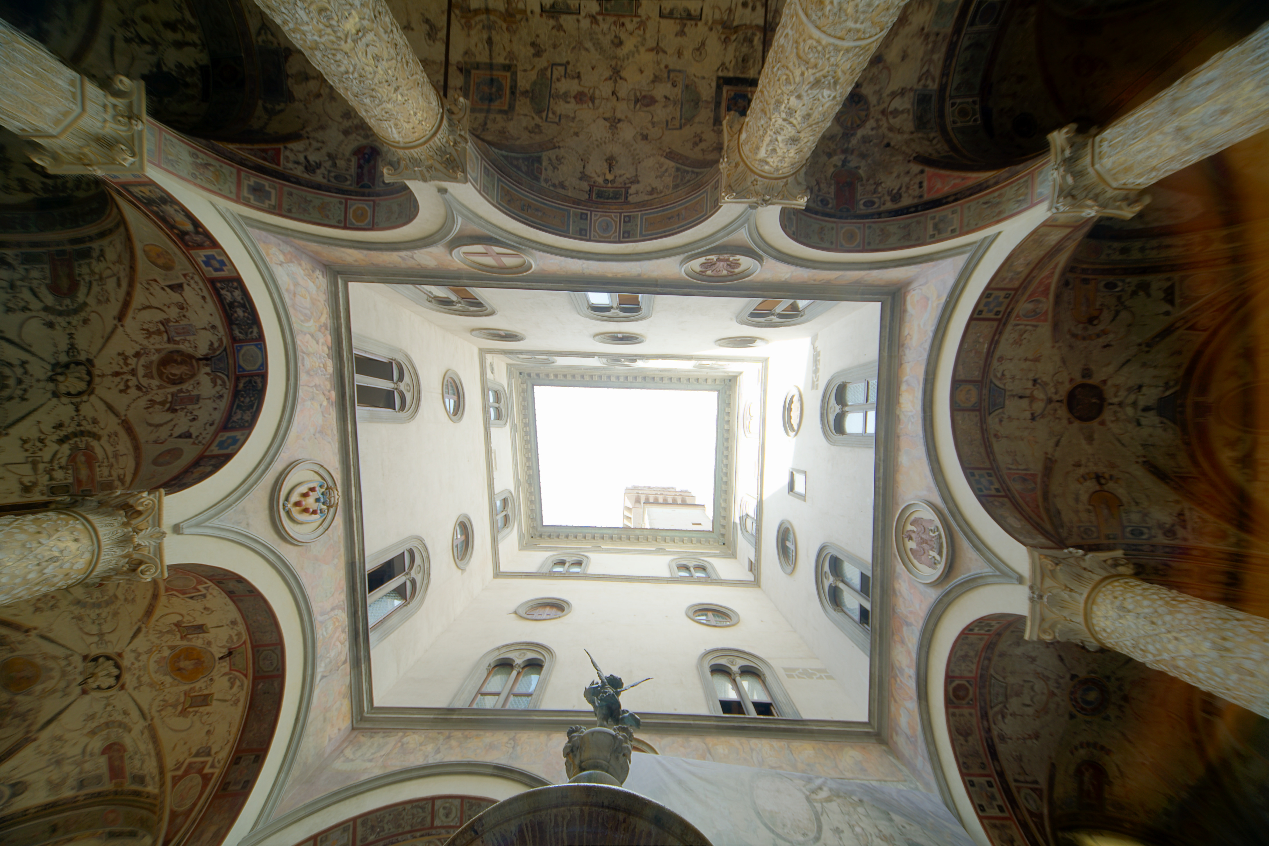 Palazzo Vecchio inner court